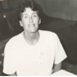 Mariver2